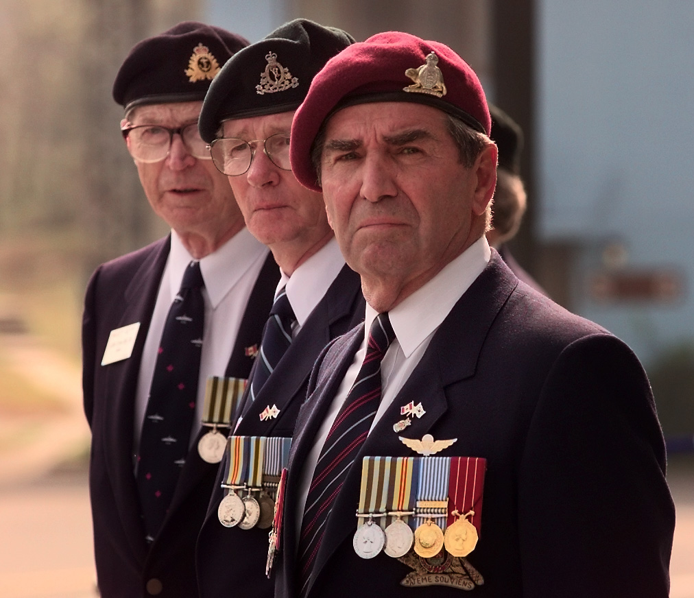 Canadian veterans